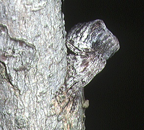 female Poltys illepidus from Okinawa.